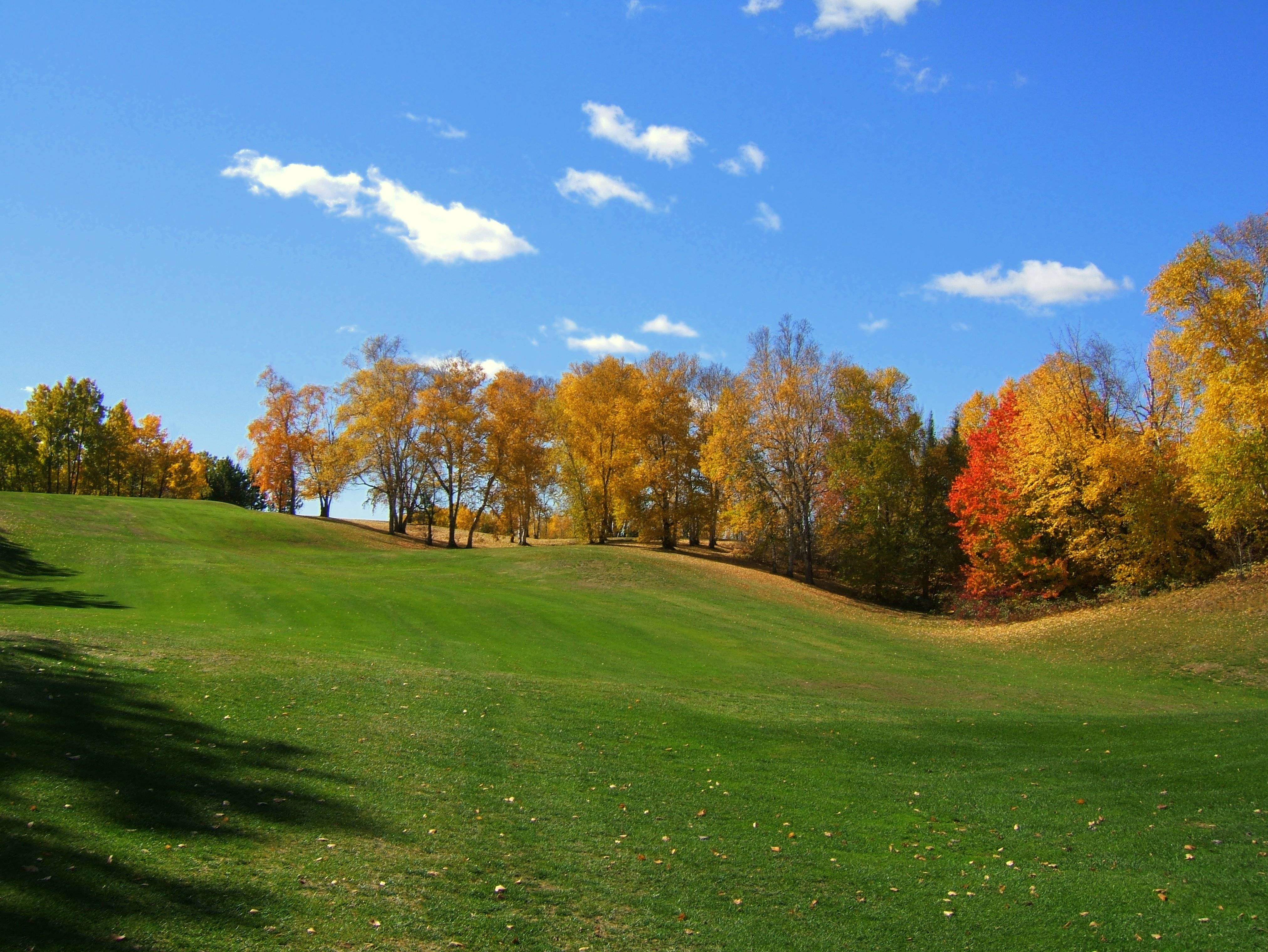 Hard to believe that this was last week...Snow and cold with no leaves today! See also Image:Minnesota Winter-Hello.jpgGoodbye....